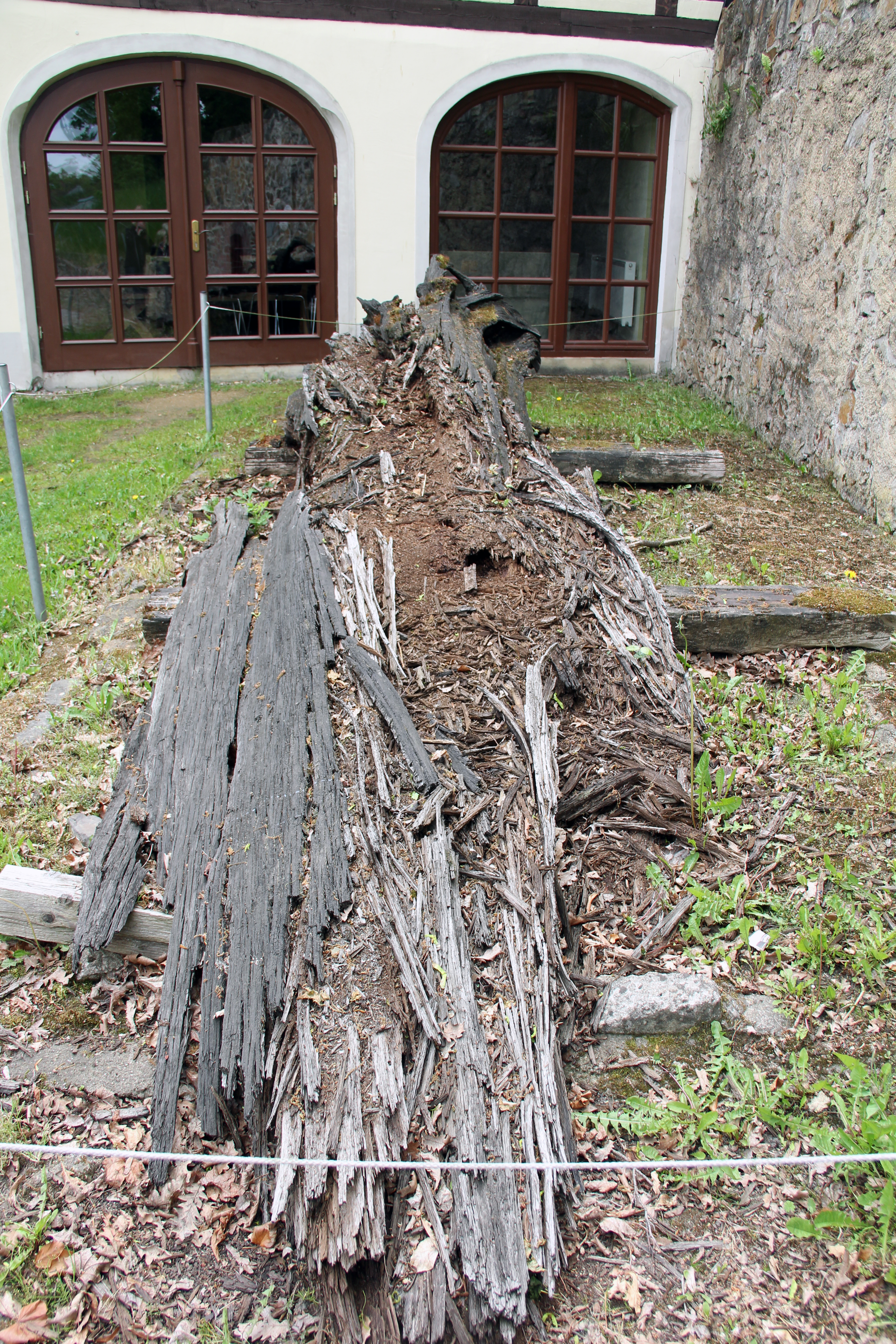 Eichenstamm, Schlosspark Senftenberg, Senftenberg, Germany